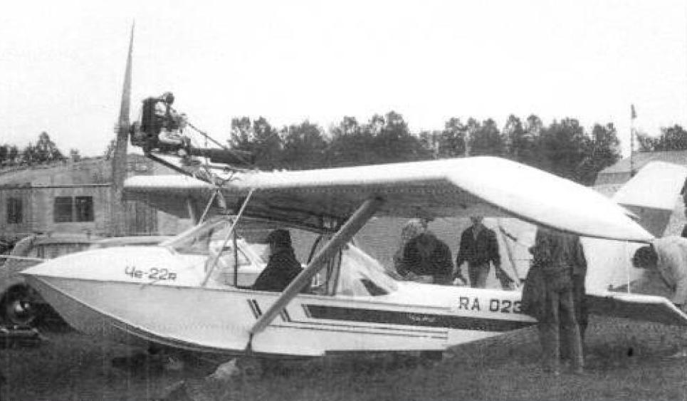 seaplane Che-22